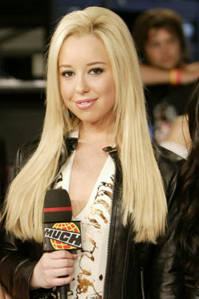 The cast of the 2007 film Bratz, at MuchMusic for a MuchOnDemand episode.